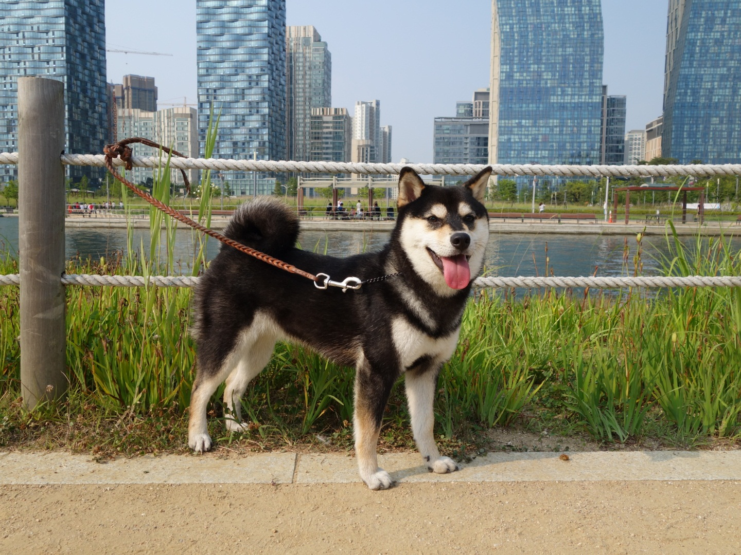 8 month old black and tan female shiba inu